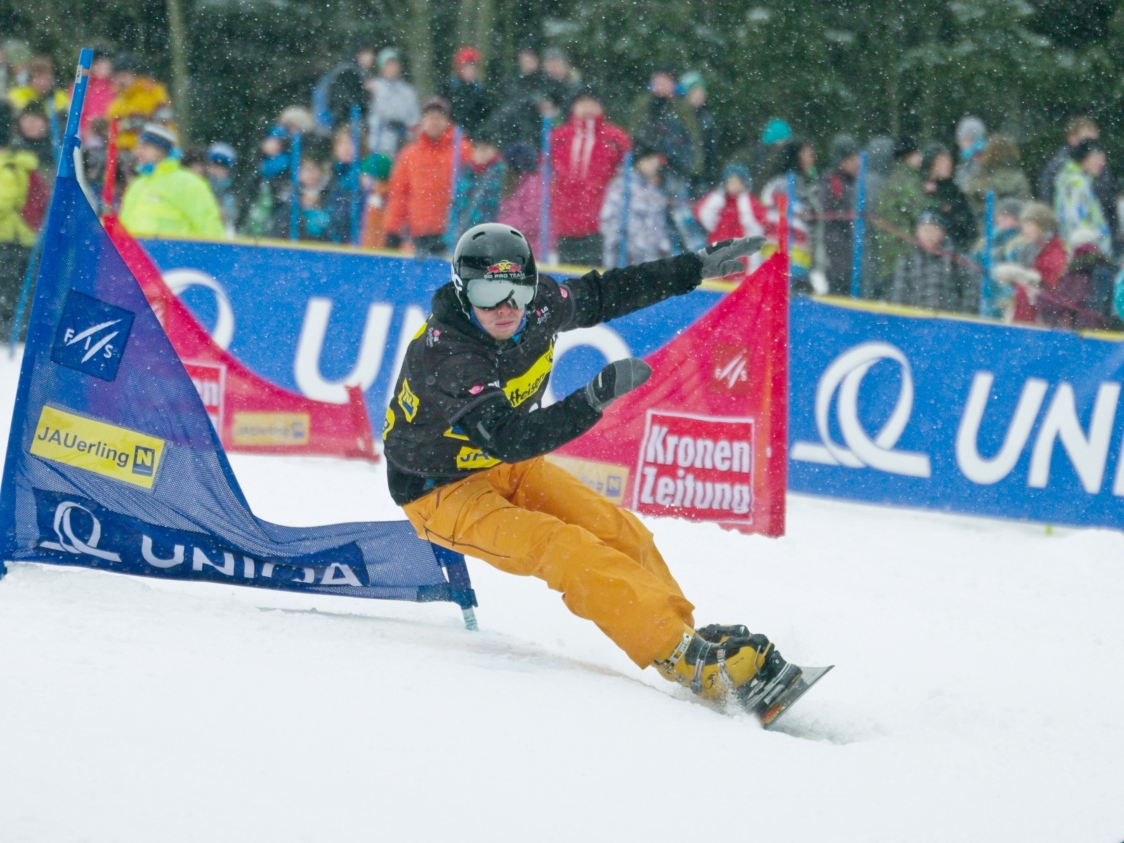 American snowboarder Justin Reiter in the qualification round of the World Cup Parallel Slalom at the Jauerling in Austria on 13 January 2012.